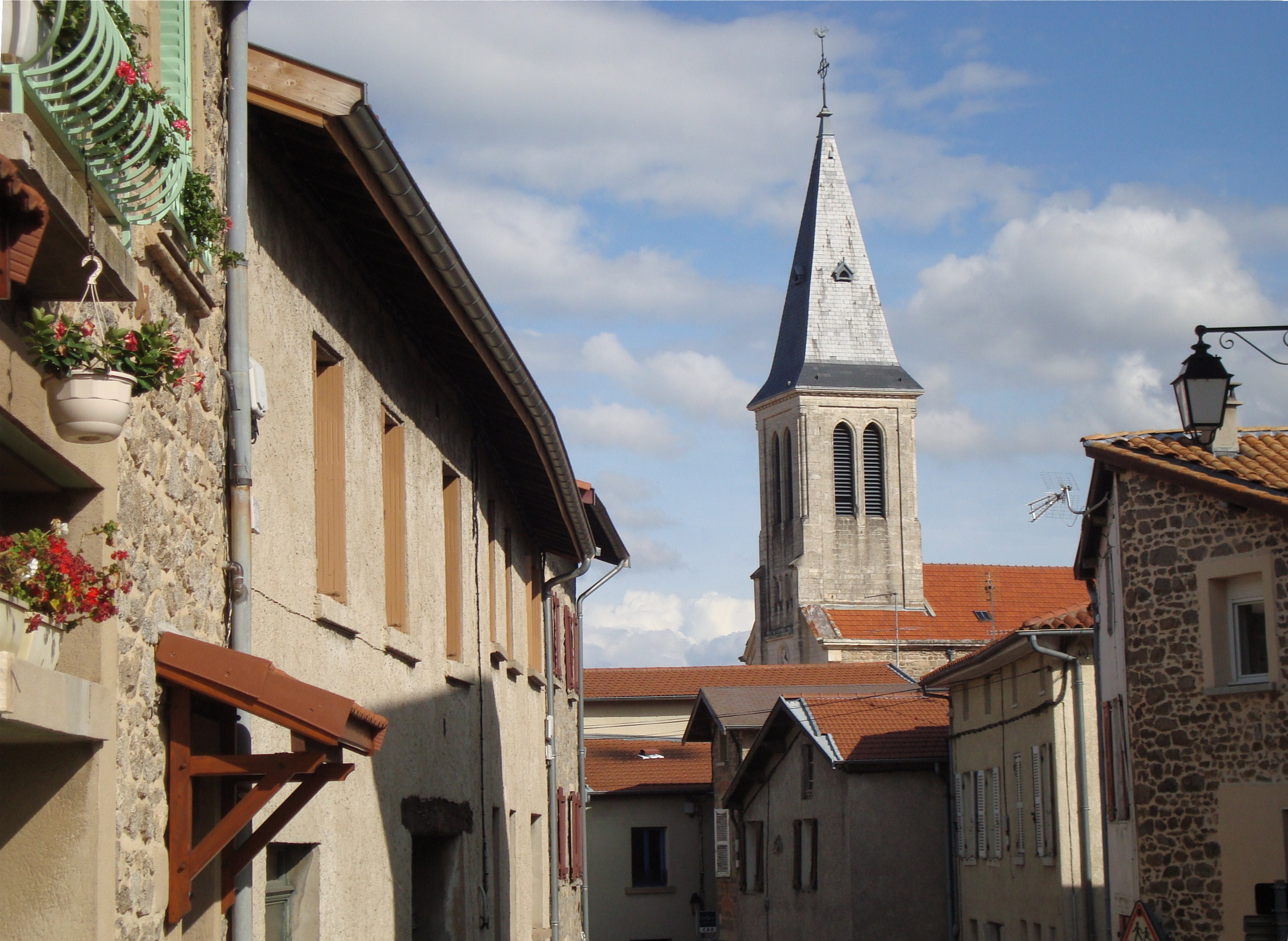 Bell tower of the church of Rontalon, Rhone, France